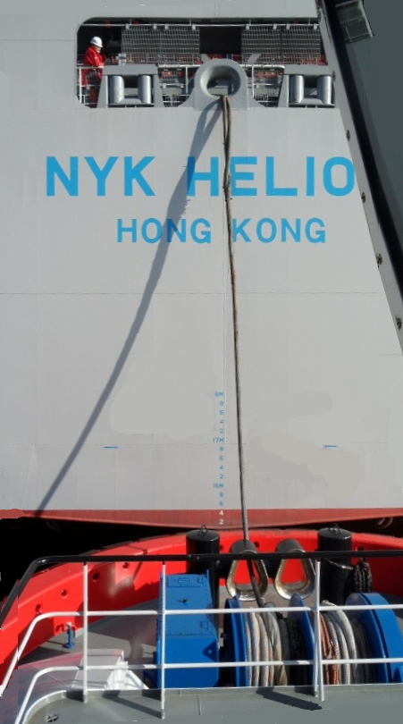 Tugboat Boxster makes aft fixed on container ship NYK HELIOS